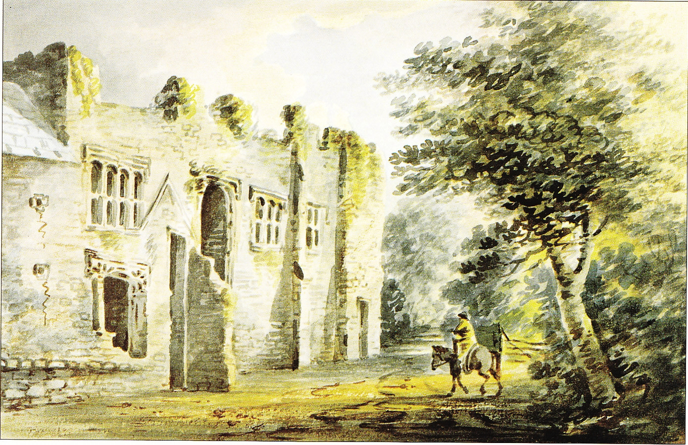 "Colecombe Castle", watercolour by Rev. John Swete dated 27 January 1795. Devon Record Office 564M/F7/77. Published in Gray, Todd (Ed.), Travels in Georgian Devon: The Illustrated Journals of the Reverend John Swete, 1789-1800, 4 Vols., Vol.2, 1998, Tiverton, p.111